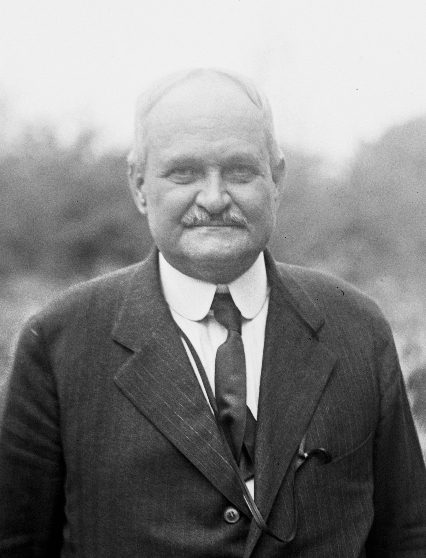 Westmoreland Davis, Governor of Virginia